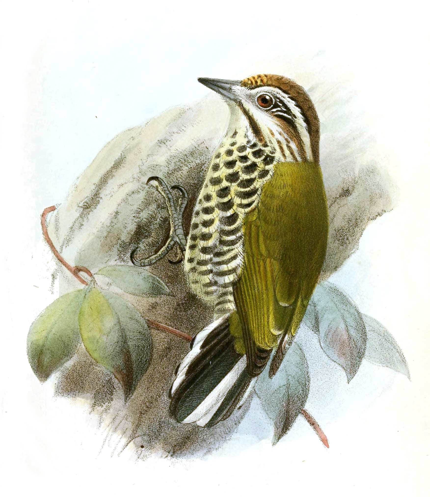 « Vivia chinensis » = Picumnus innominatus chinensis (Subspecies of Speckled piculet)